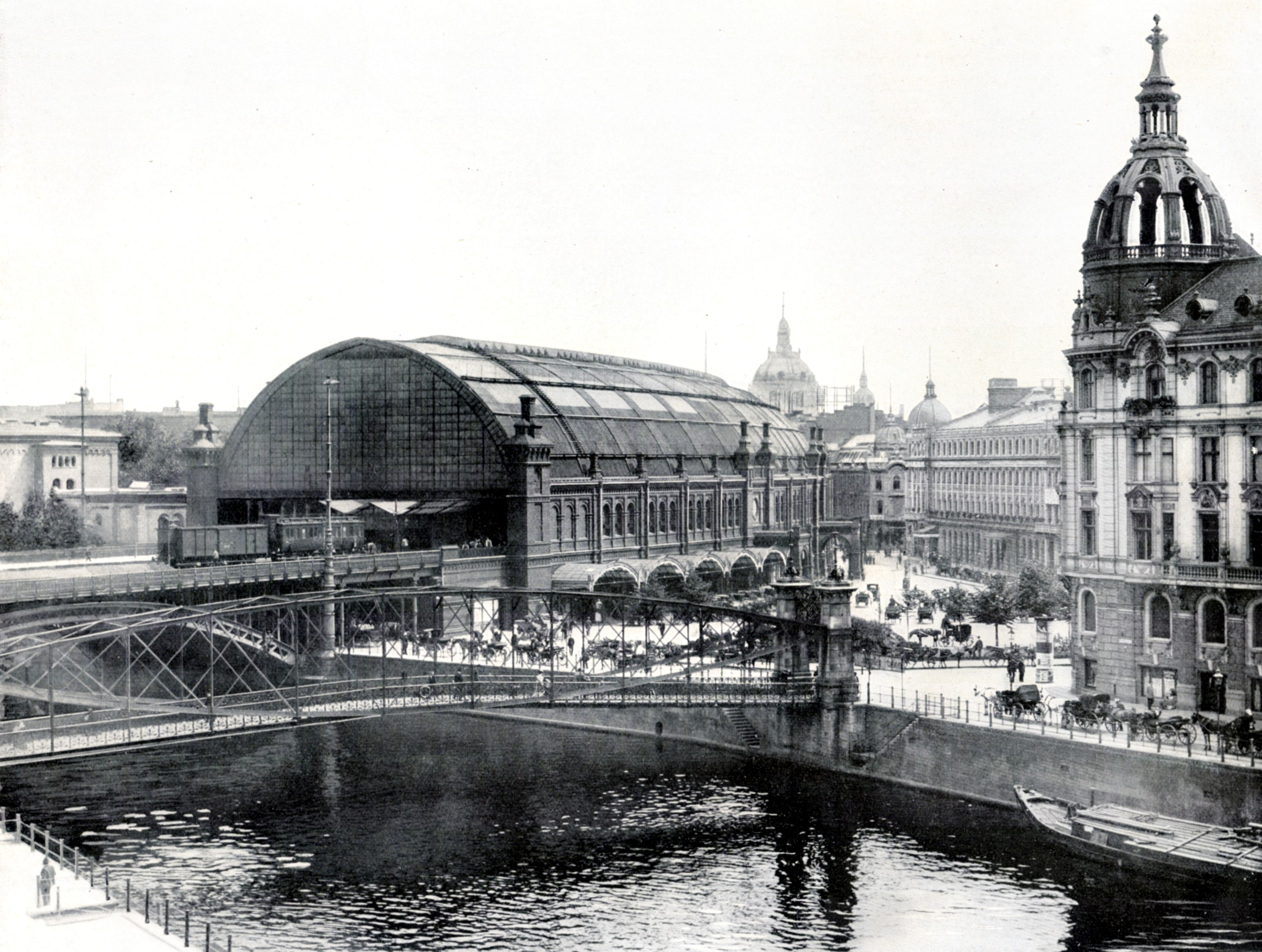 Berlin Friedrichstrasse station, railway bridge and Schlütersteg around 1900; in the background the Berlin Cathedral. Judging by the trees this picture was taken perhaps a year or two before this photograph. Note the mound of earth which may have been used for the border along the row of trees, visible in the later photographs.